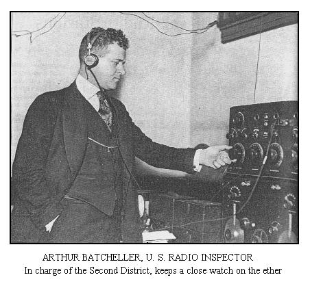 Arthur Batcheller U.S. Radio Inspector, keeping a close watch on the ether.